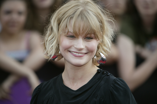 Emilie de Ravin at the 2007 MuchMusic Video Awards red carpet.